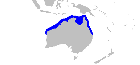 Distribution map for Carcharhinus fitzroyensis